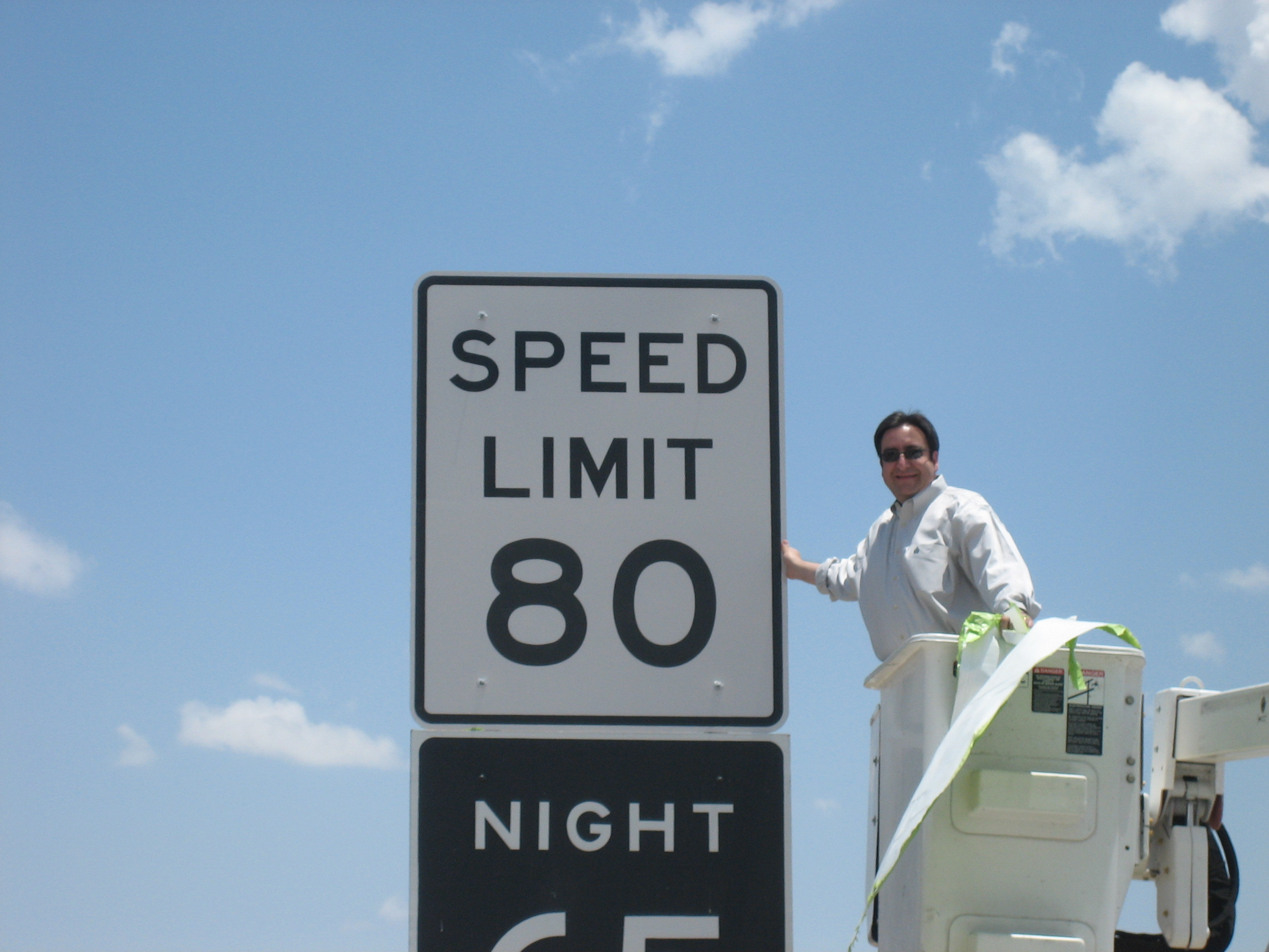 Texas Legislator Pete Gallego (D-Alpine) unveiling the new 80 mph speed limit. This image was provided by a staffer of Representative Gallego's Texas House office in Austin, TX, explicitly with no copyright or limitations on distribution. This is the same photo that has been released by his office to various news outlets.